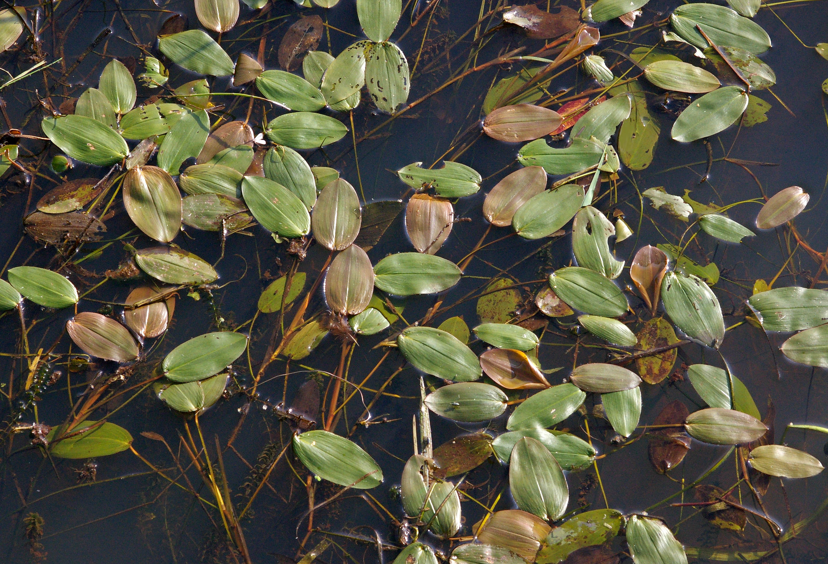 The waterplant Floating Pondweed, Potamogeton natans.